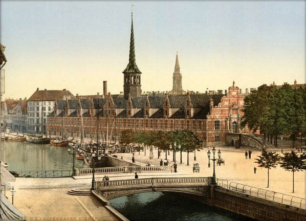 Børsen and Højbro in Copenhagen, Denmark